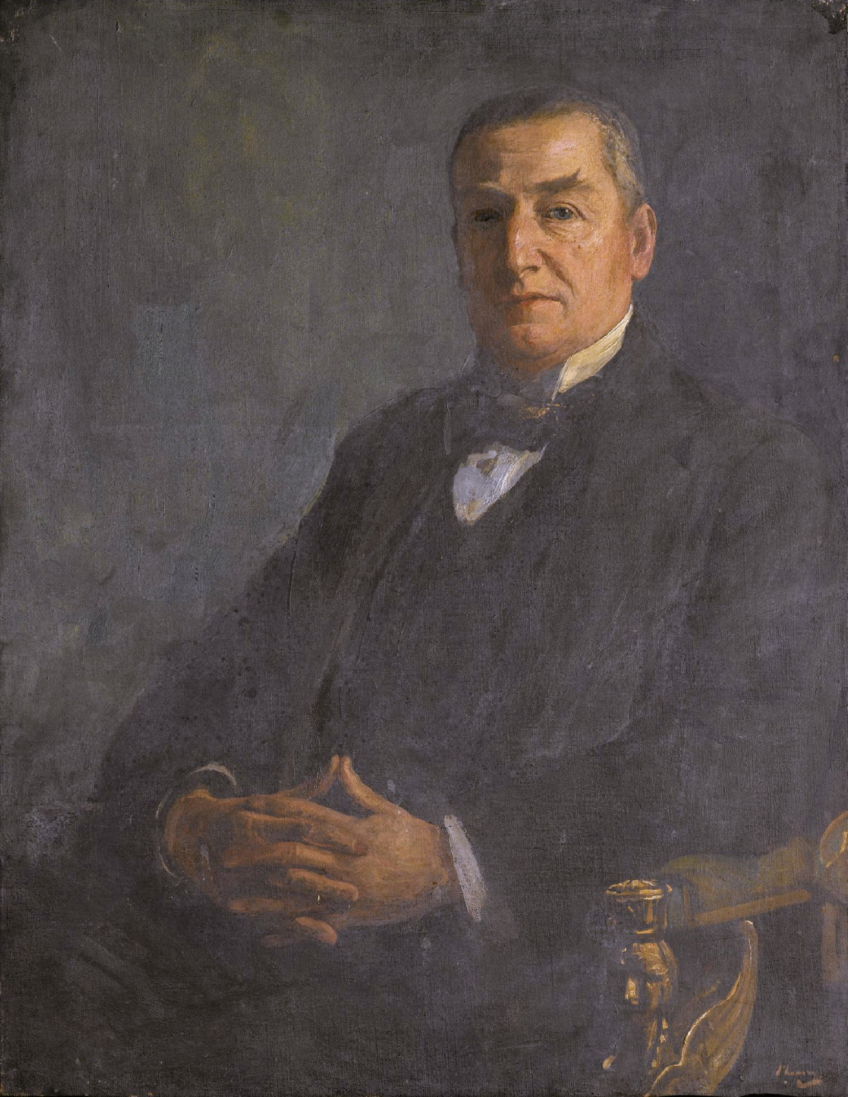 Edward Denison Ross oil on canvas 91.5 x 70.5 cm dated on the reverse: 1922